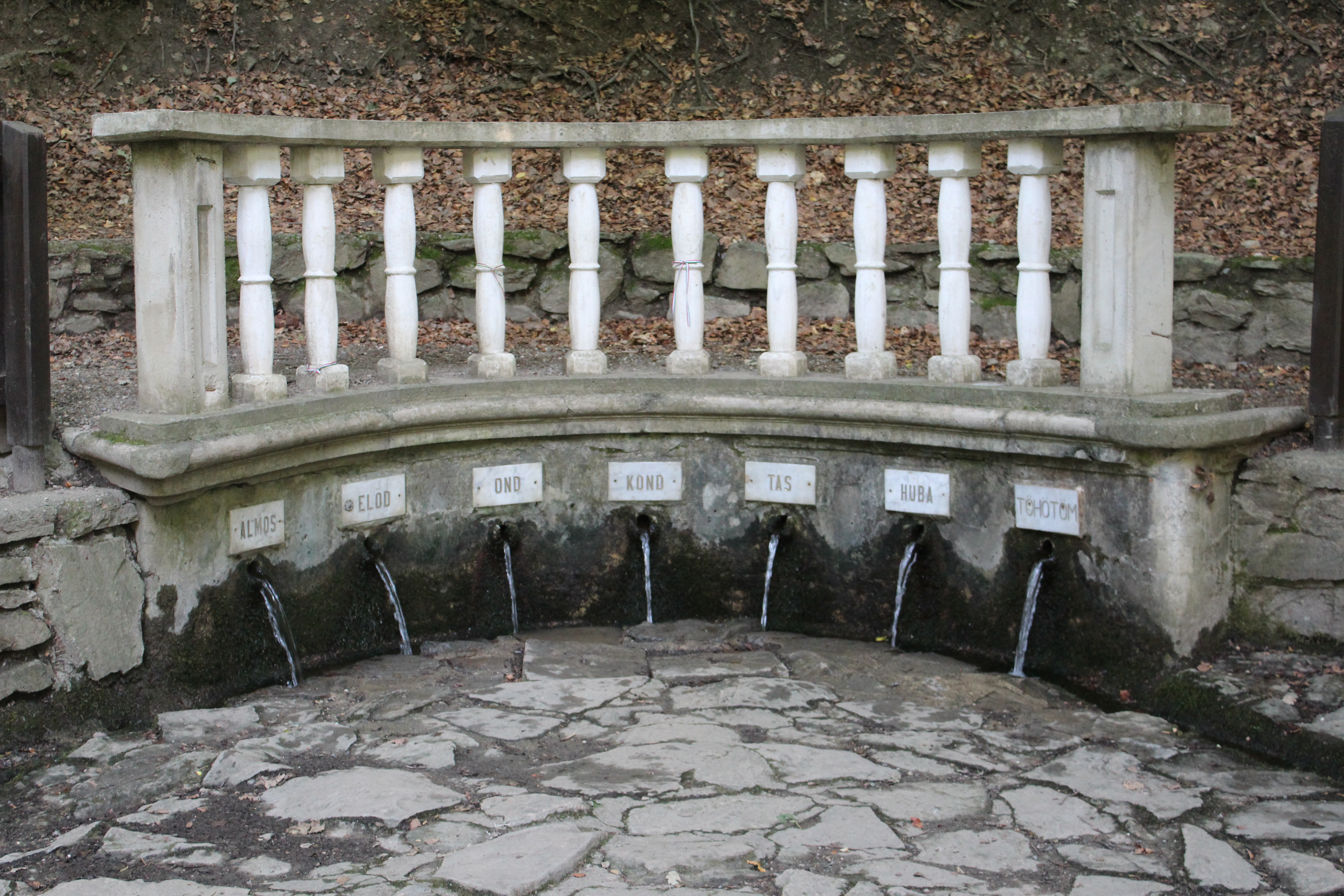 Sevenspring (Kőszeg Mountains, Hungary).